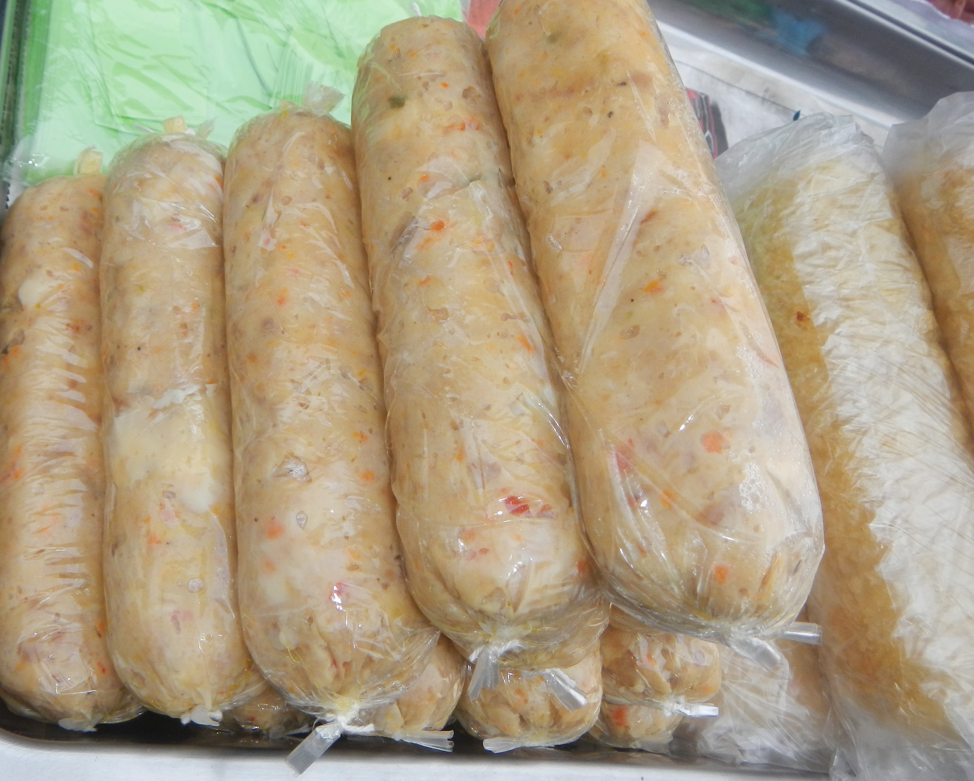 Embotido (Malolos City Town Center)